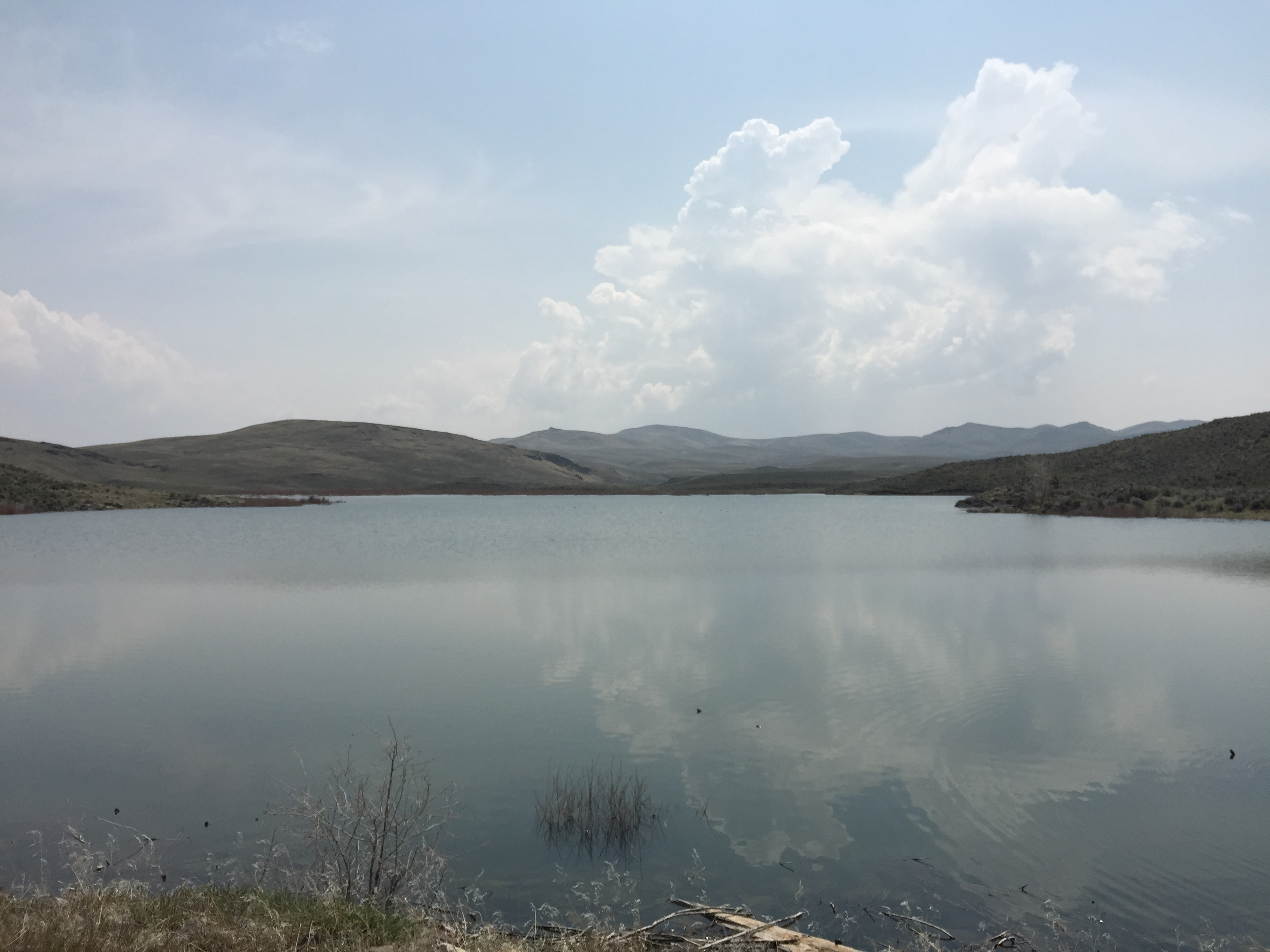 View southeast across Deep Creek Reservoir from IL Ranch Road (Elko County Route 730) in Elko County, Nevada